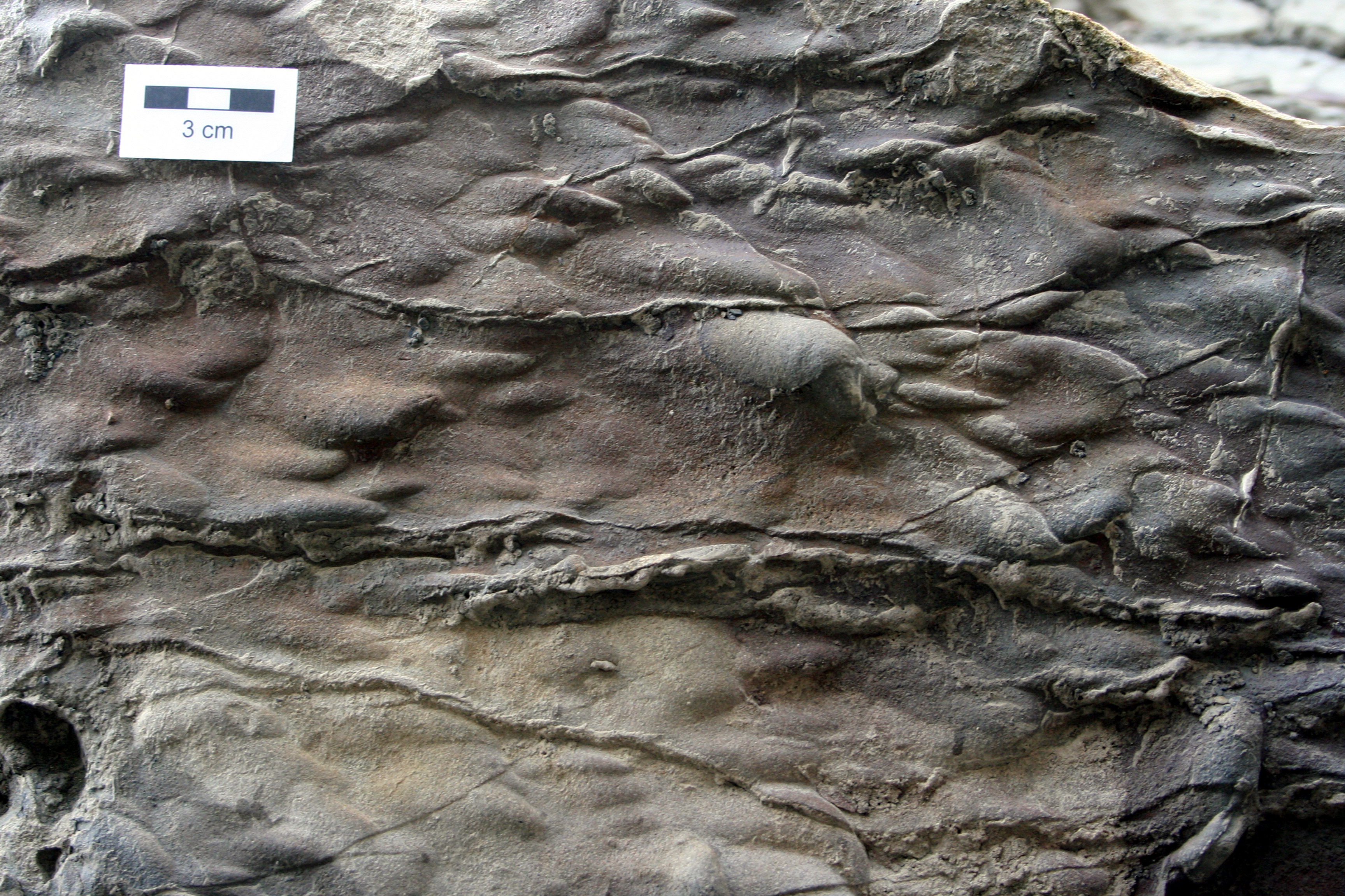 Flute casts on the base of a bed of sandstone from the Inverness Formation (Pennsylvanian), western Cape Breton, Nova Scotia. Flute casts are bulbous on the upstream side and taper on the downstream side; in this case recording paleoflow from right to left.